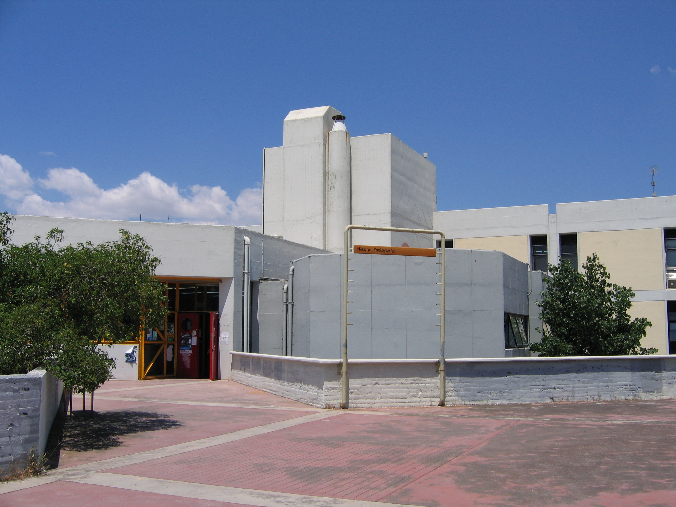 Central computer building, NTUA Zografou campus. This building contains the central minicomputer used by the whole of the NTUA academic community, as well as a couple of pc labs, an auditorium and several faculty offices.